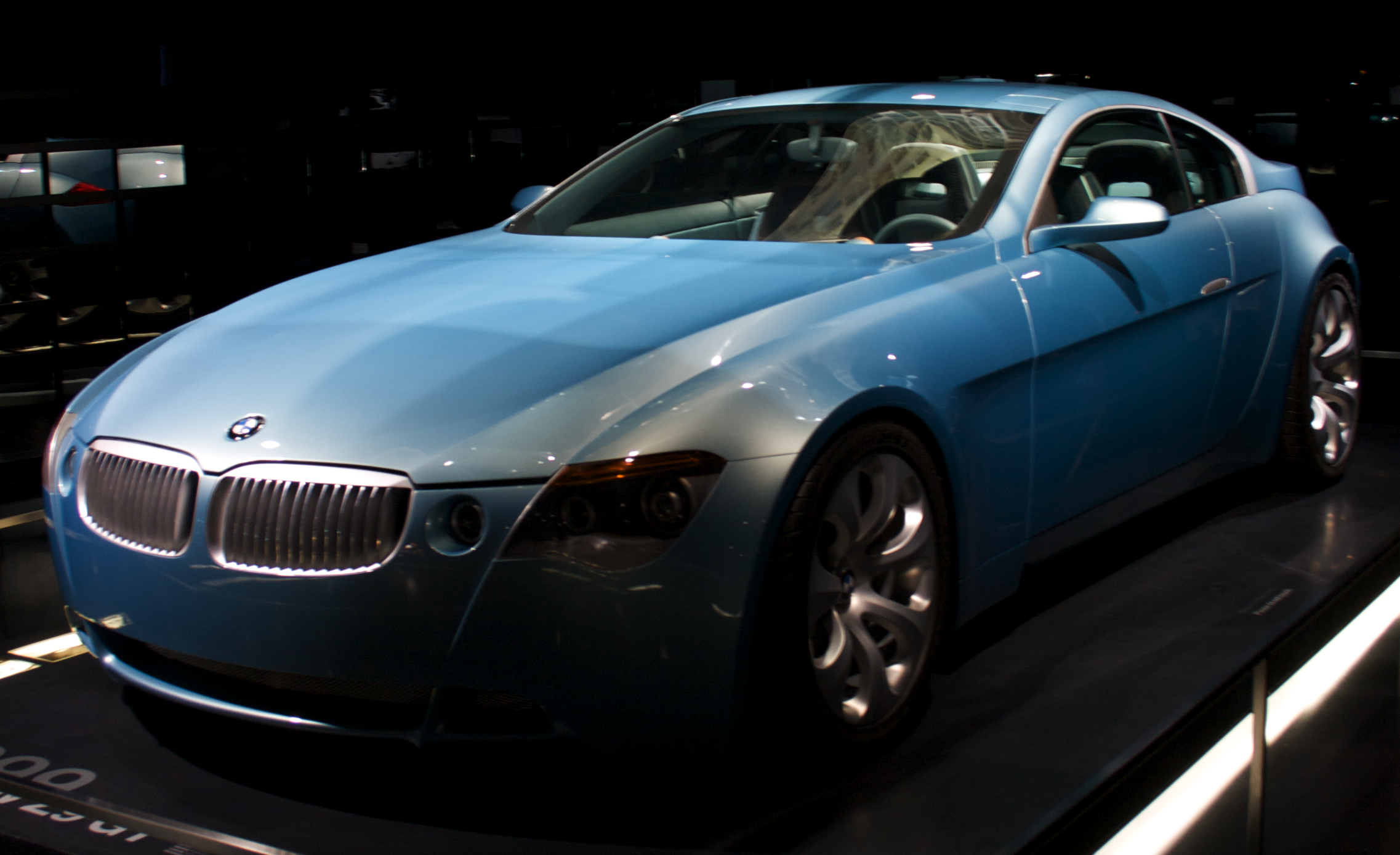 BMW Z9 concept car on display at BMW Museum Munich